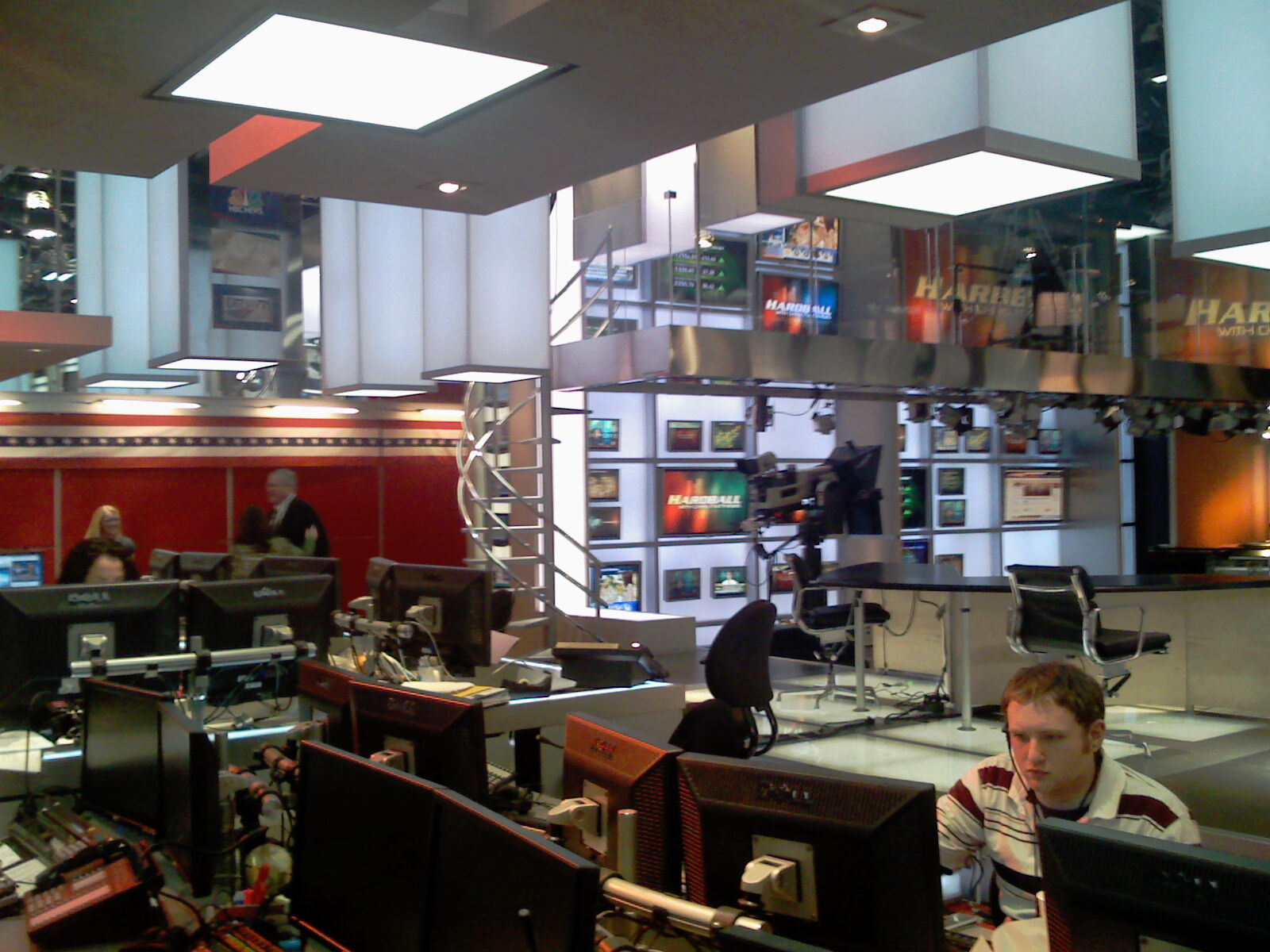 MSNBC NYC HQ Studio